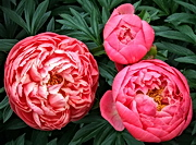 Pfingstrosen 'Coral Charm' im Palmengarten in Frankfurt am Main, modified by jha